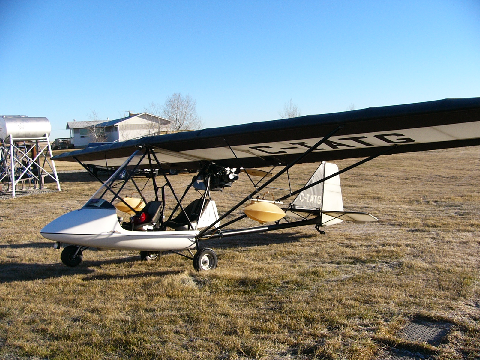 Spectrum Beaver RX 550 at Chestermere-Kirkby airfield